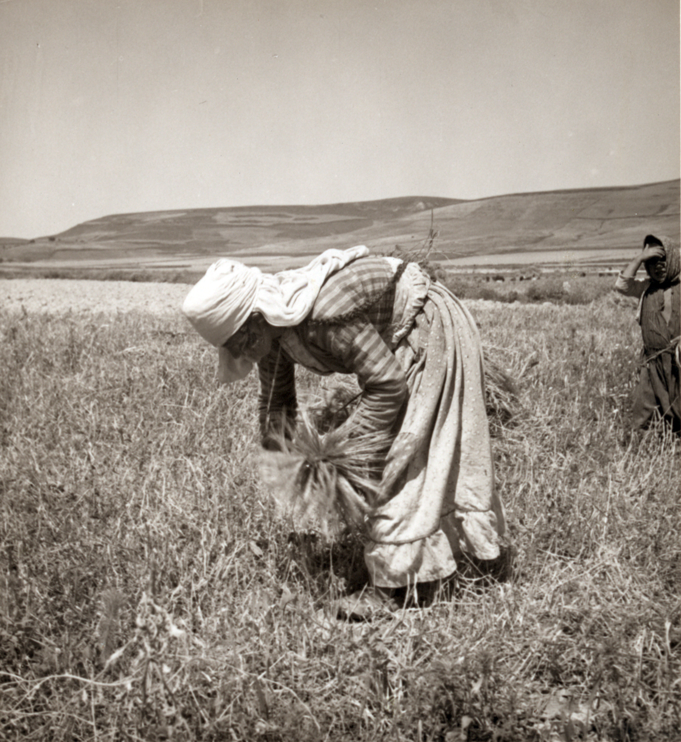 Alouite women and children gleaning. LC-DIG-ppmsca-17414-00189 (digital file from original on page 99, no. 1892)